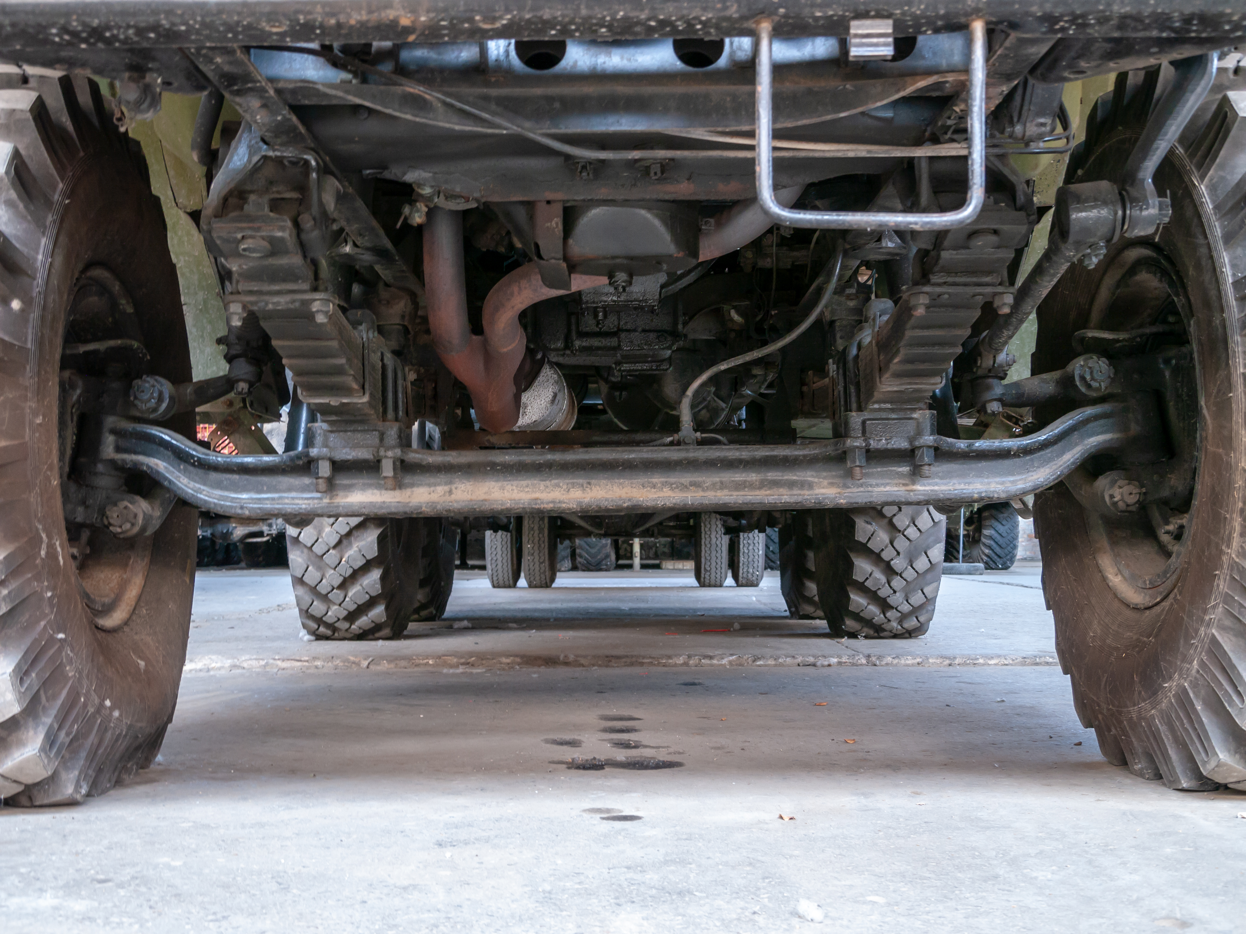 Front axle of an Ural 377 S